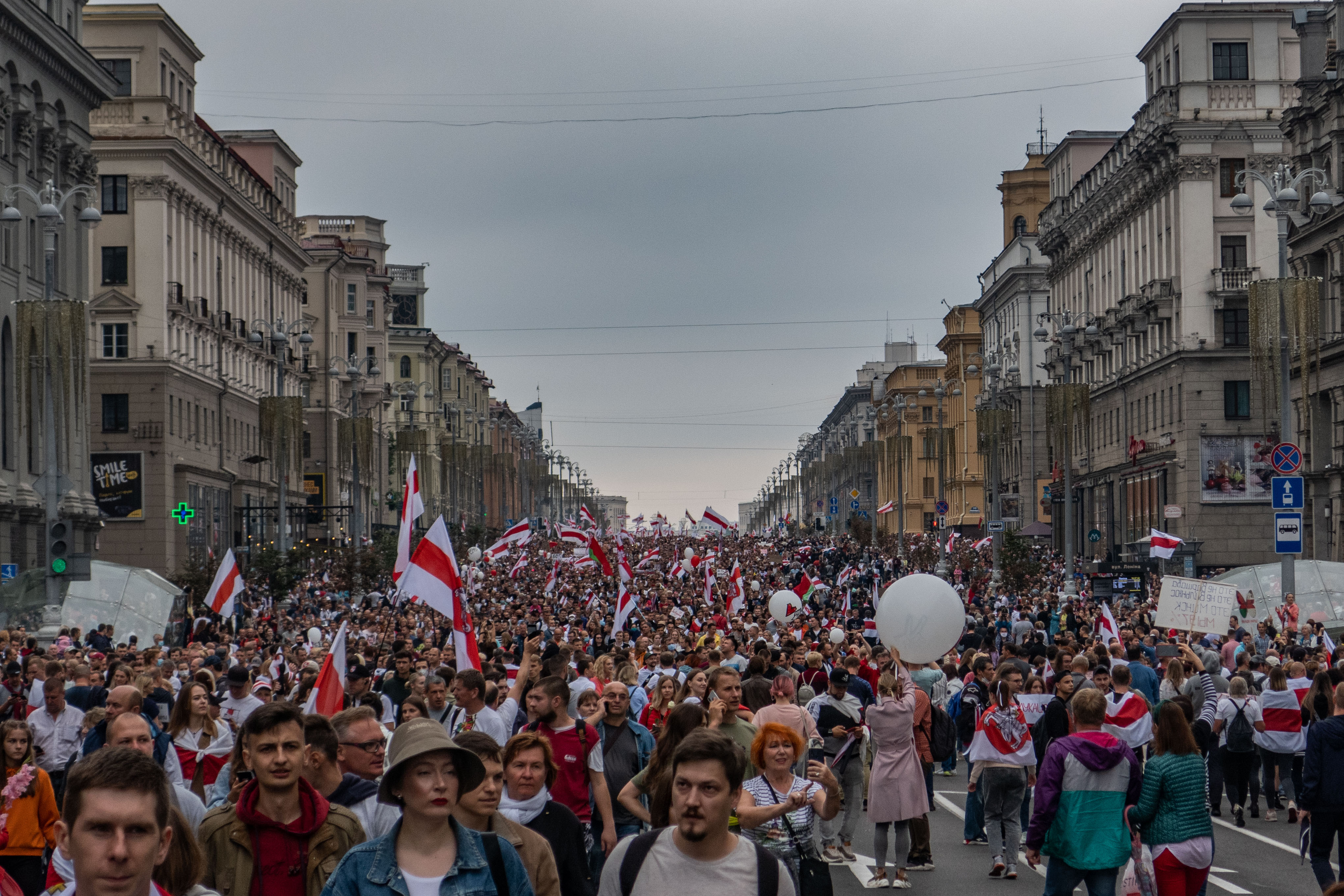 Protest rally against Lukashenko, 23 August 2020. Minsk, Belarus